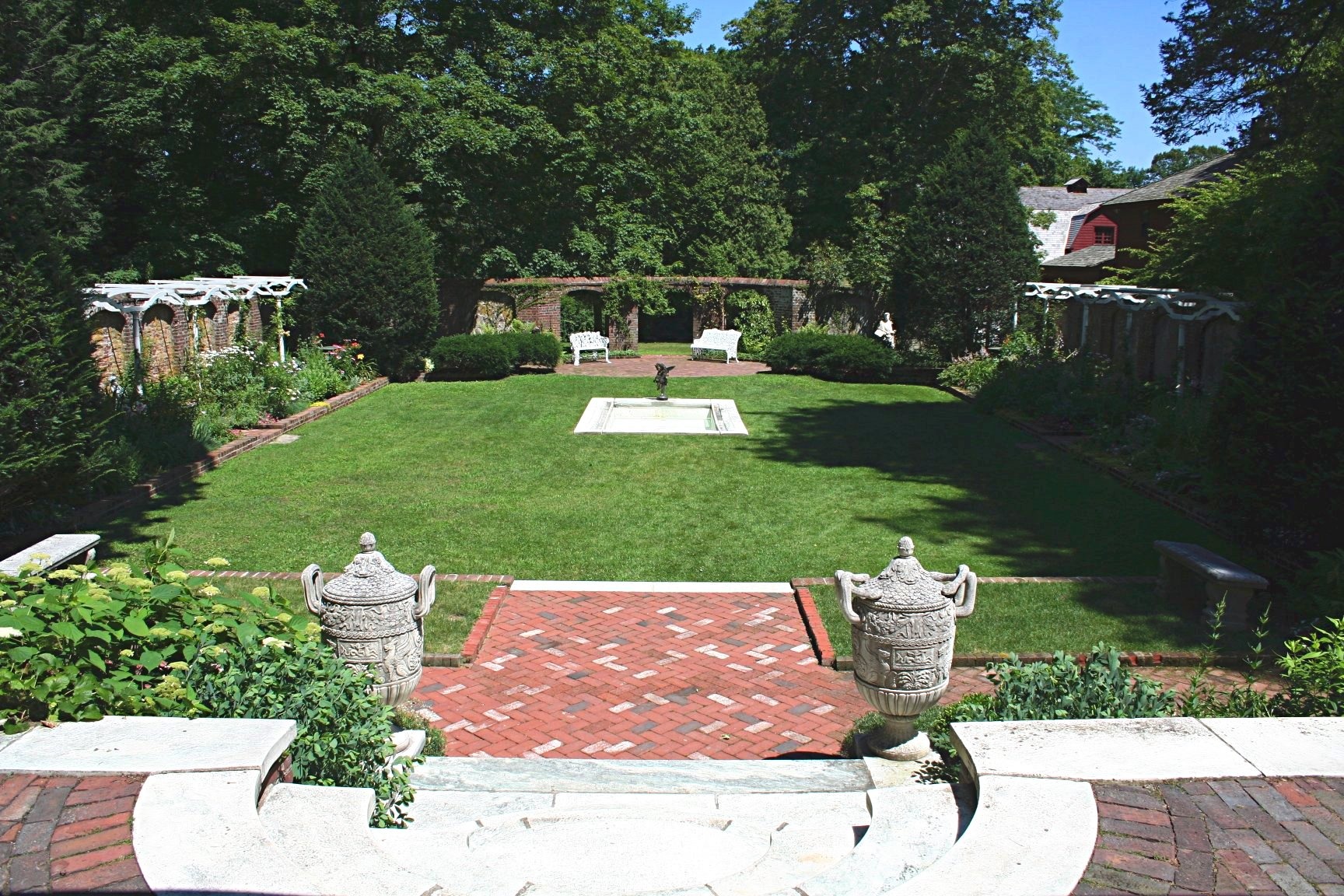 Photograph of the garden of the Keeler Tavern in Ridgefield, Connecticut, United States of America